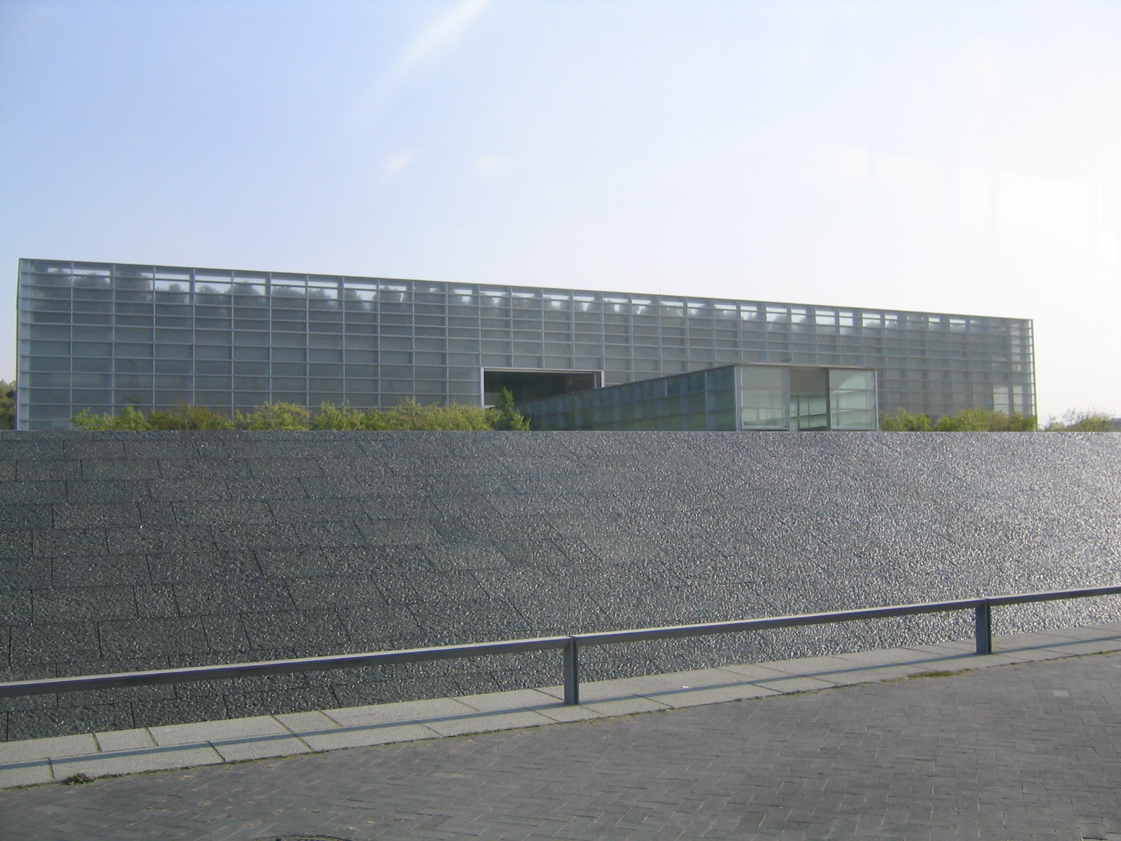 National Diet Library Kansai Branch